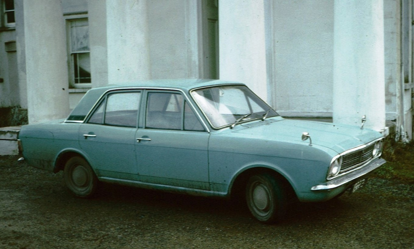 Ford Cortina Mk II in profile